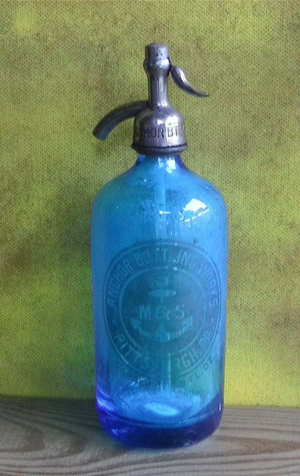 HeyYallYo. Anchor Bottling Works Siphon seltzer bottle from circa en:1922. Uploader gave it this caption: Anchor Bottling Works siphon seltzer bottle from circa 1922